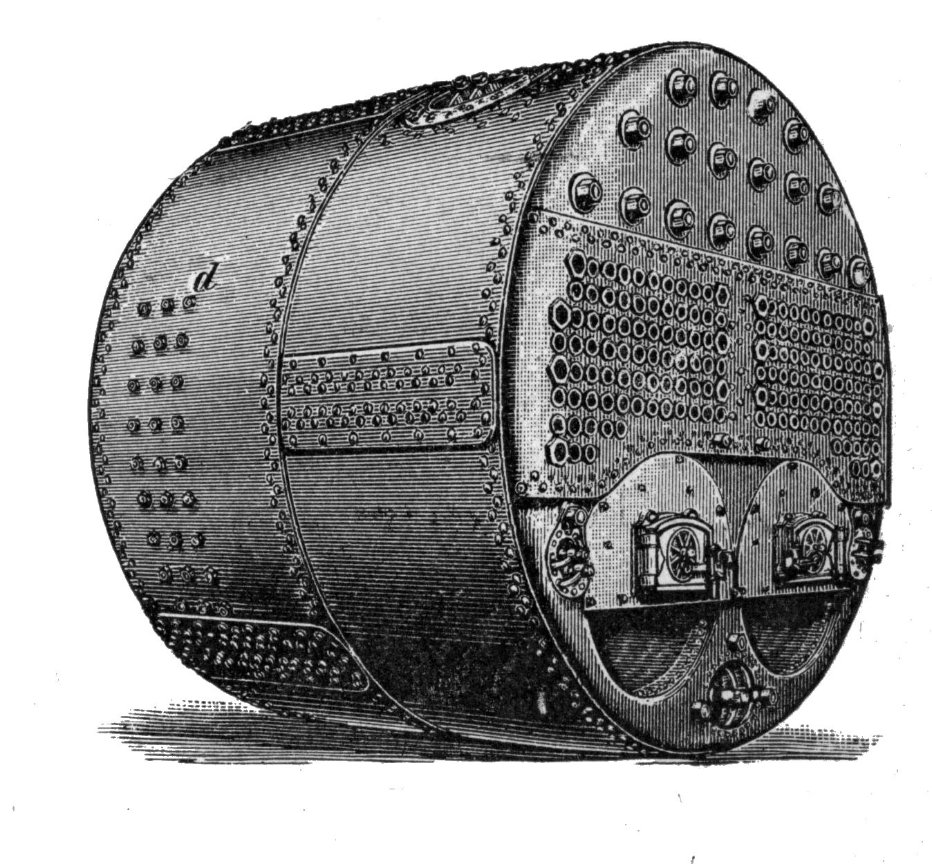 Scotch marine boiler